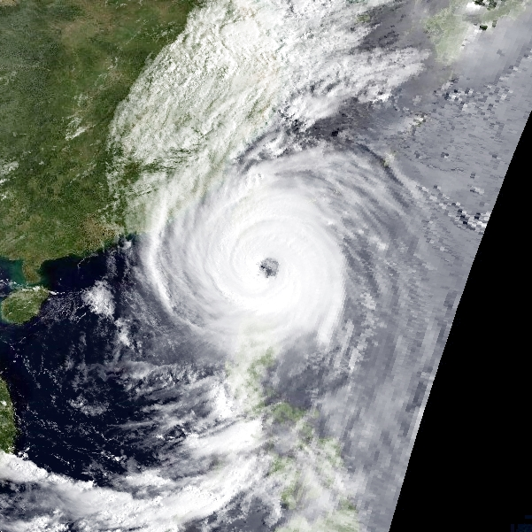 Typhoon Gerald on September 9, 1987